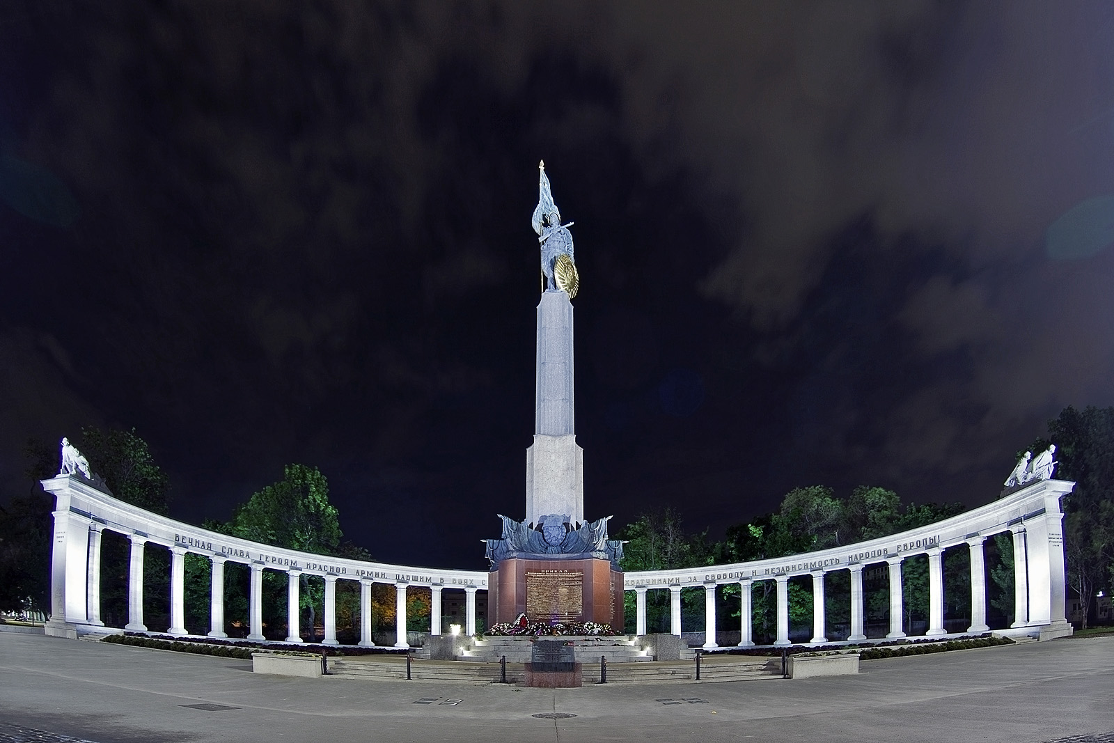 Austria, Vienna, Schwarzenbergplatz, Heroes Monument of the Red Army